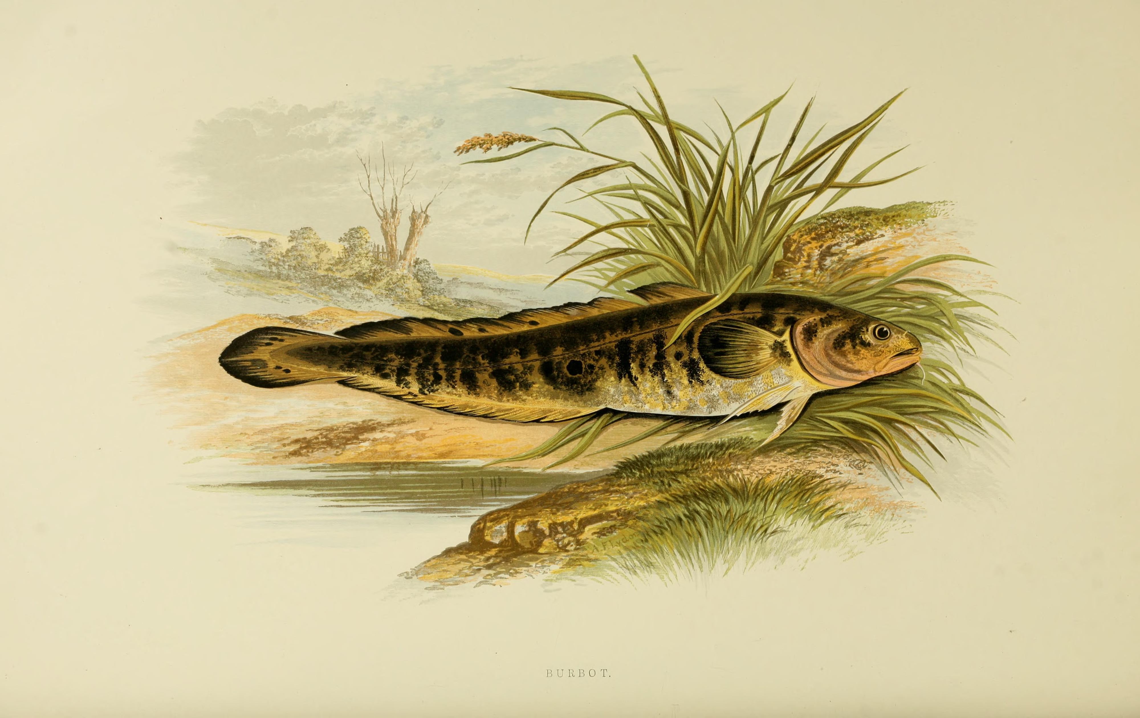 British fresh water fishes / by Rev. W. Houghton . . . illustrated with a coloured figure of each species drawn from nature by A. F. Lydon, and numerous engravings.